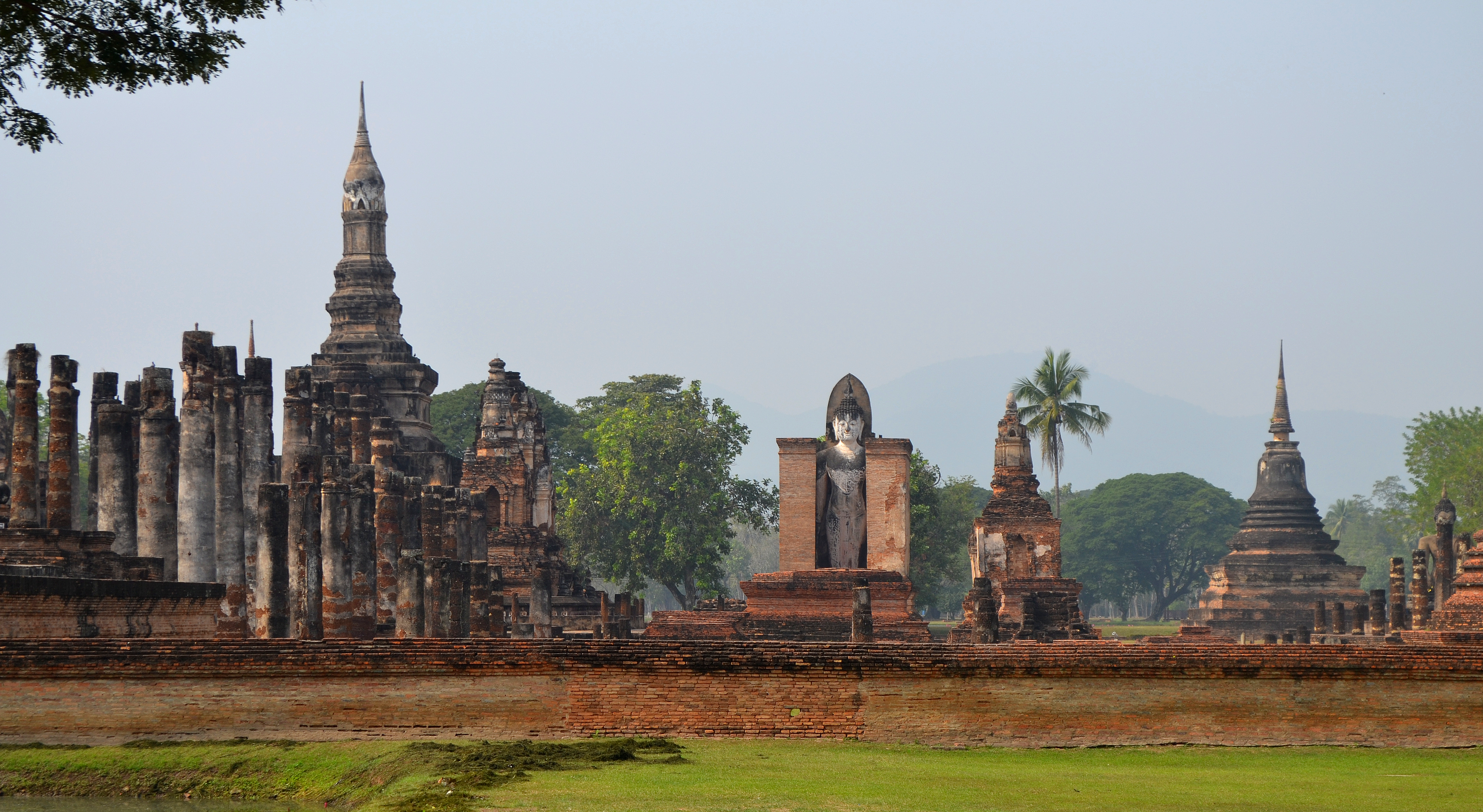 Wat Mahathat (Sukhothai Historical Park)